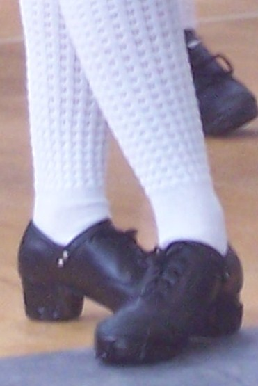 Irish dance hard or treble shoes on dancer with poodle socks.